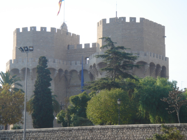 Autor:-Joseaperez 17:24, 10 October 2005 (UTC)